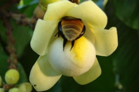 Eulaema mocsaryi male: Approach to flowers of Brazil nut (Bertholletia excelsa) by distinct bee species in a commercial cultivation in the county of Itacoatiara, state of Amazonas, Brazil, 2007